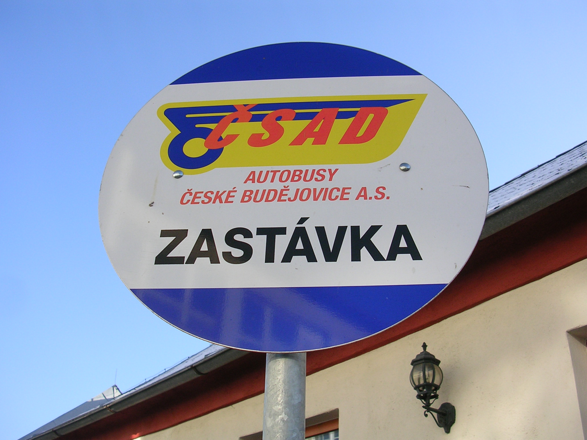 Vimperk, the Czech Republic.